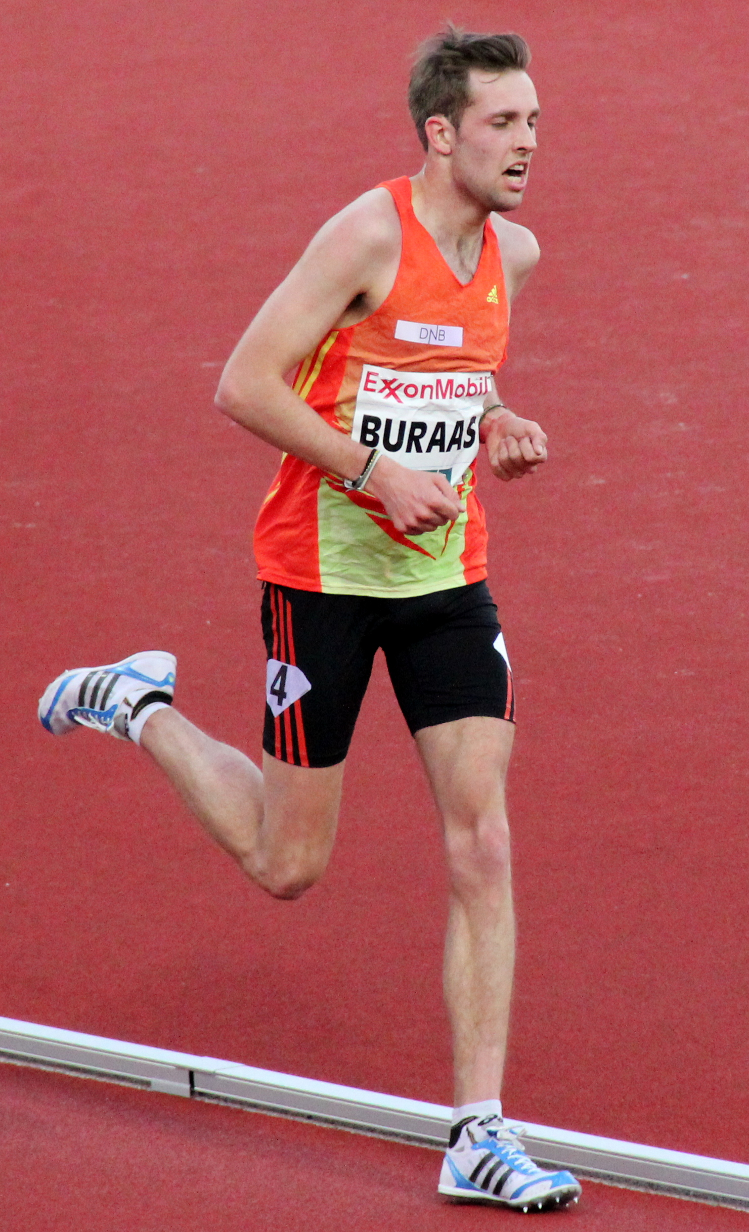 Sindre Buraas at the 2012 Bislett Games